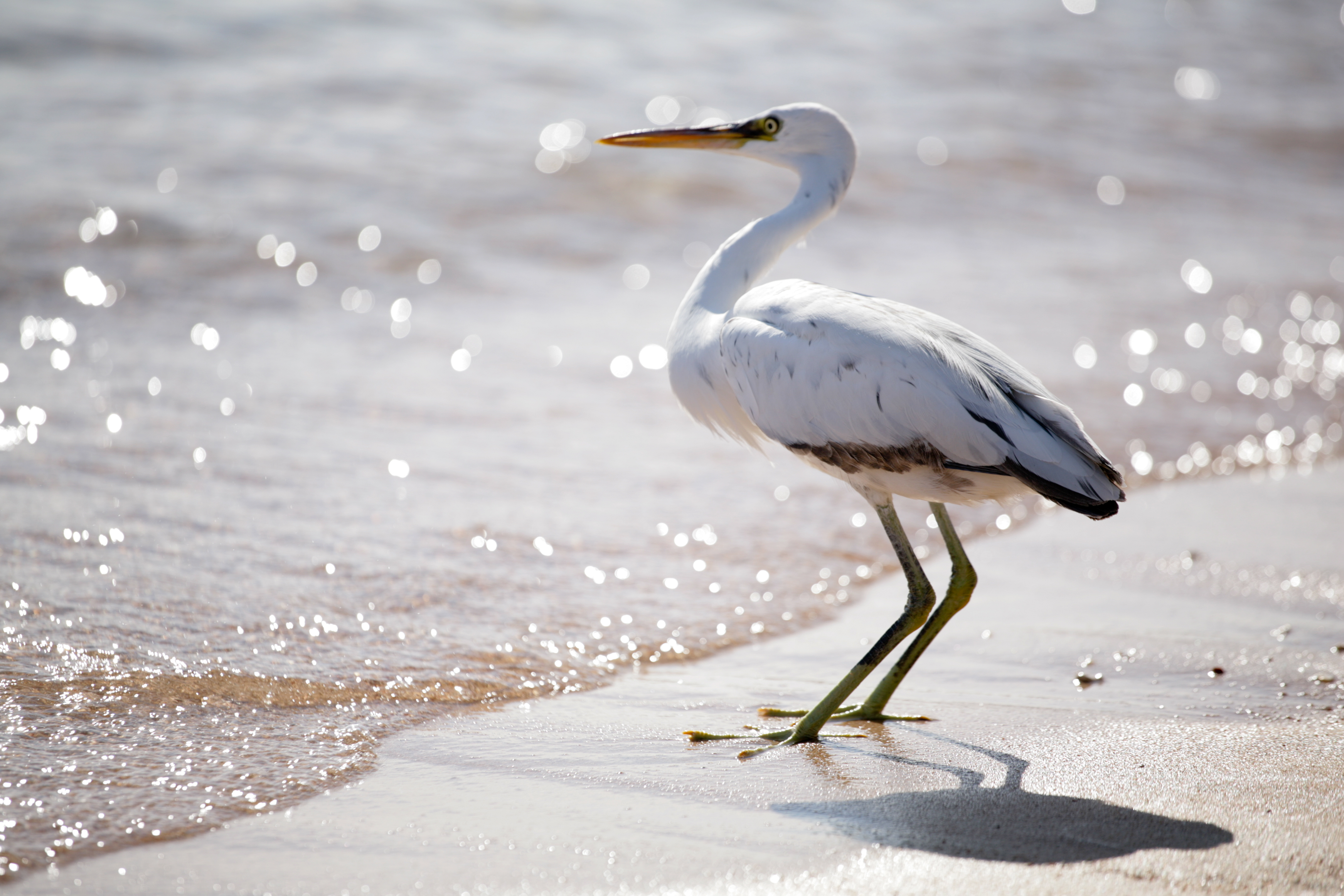 Western Reef Heron (also known as the Western Reef Egret) at Sharm El Sheikh, Egypt. It is an immature white morph of the Indian Ocean subspecies.